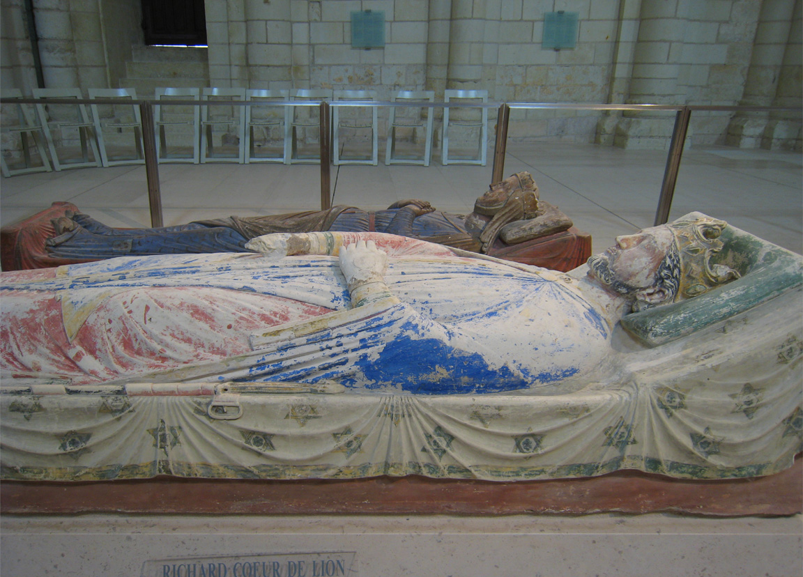 Abbey of Fontevraud in France, Tomb of Richard the Lionheart and Isabel of Angoulême